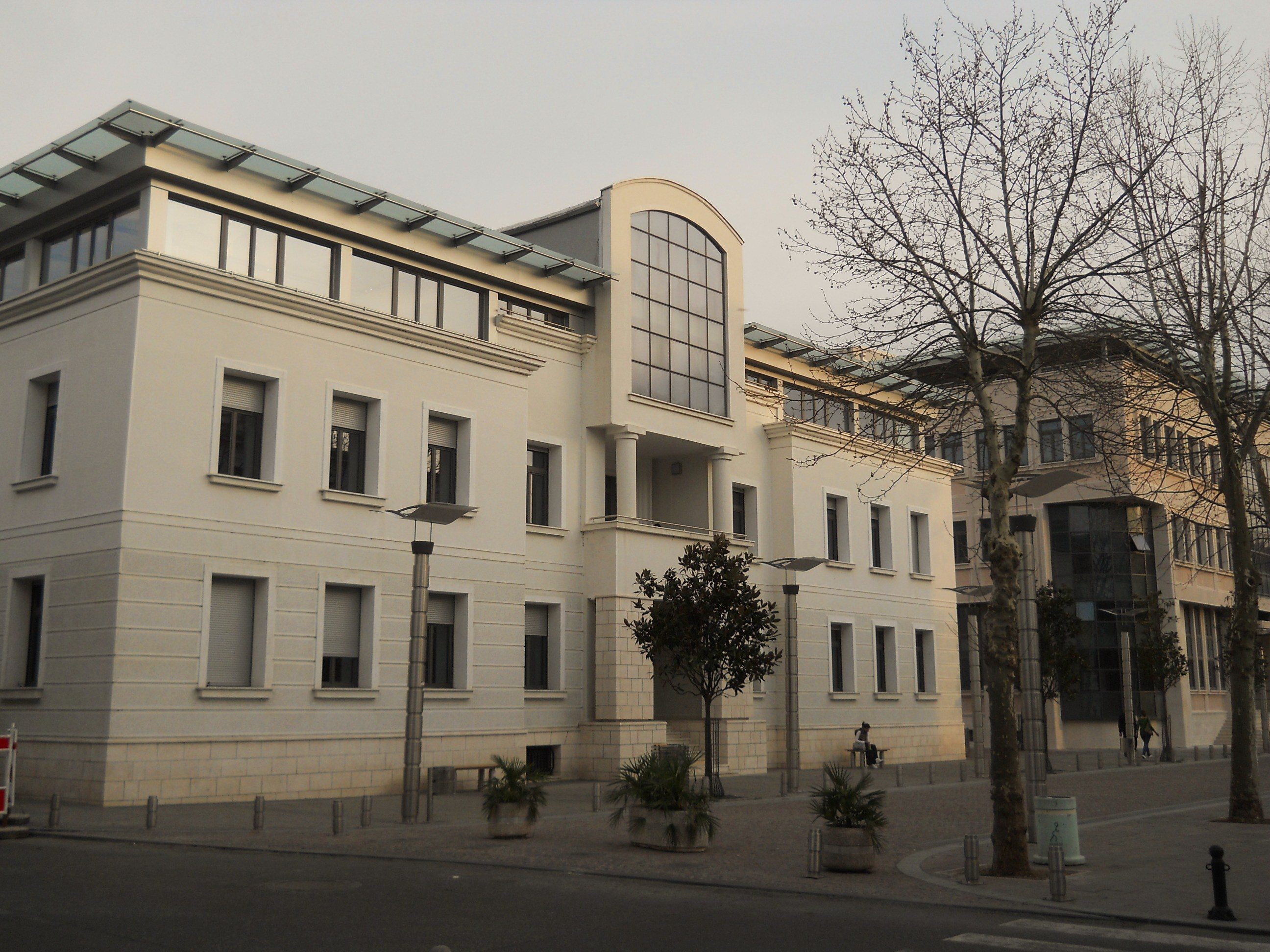 "Radosav Ljumović" public library